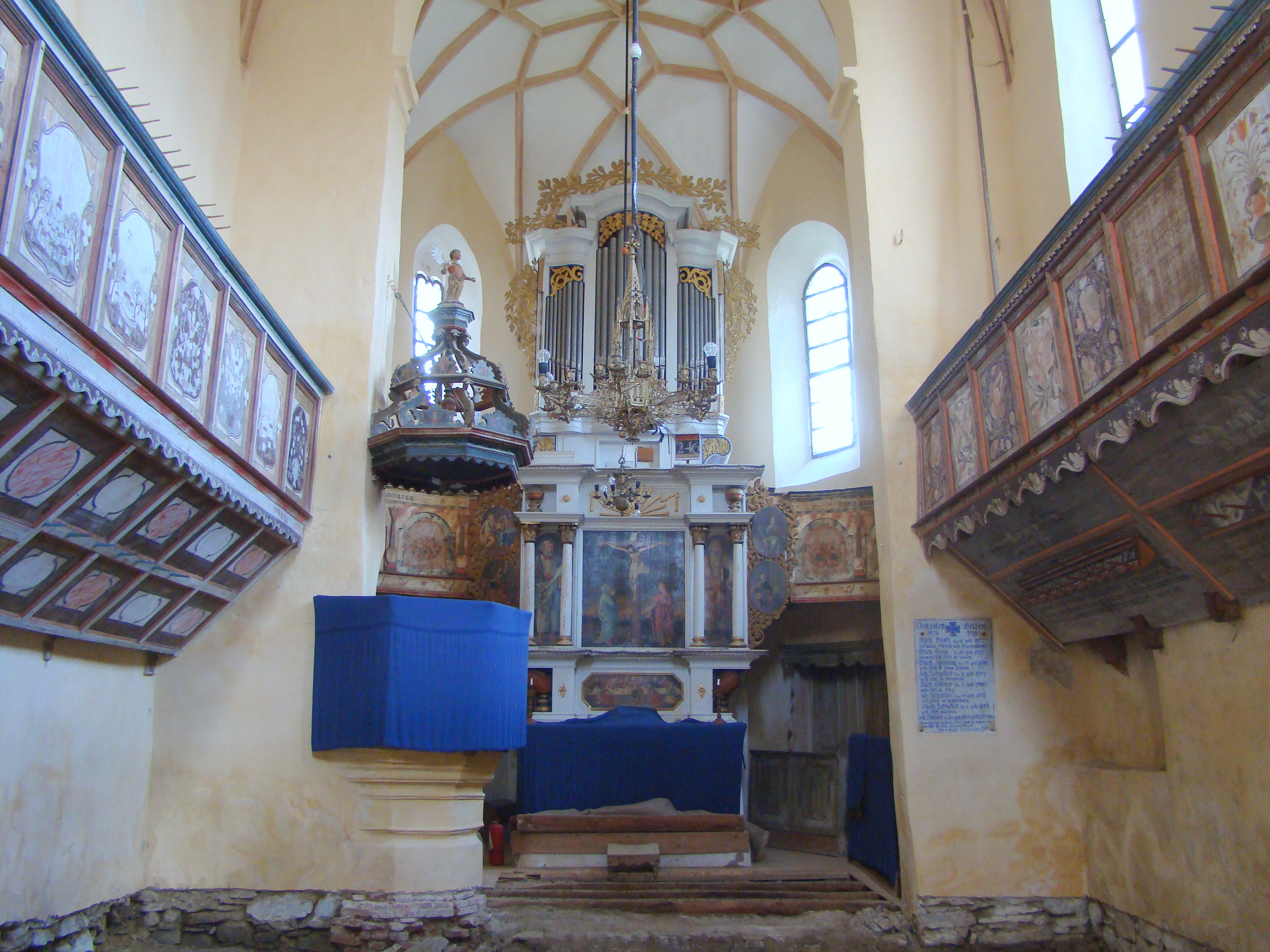 Lutheran church in Cloașterf, Mureș county, Romania